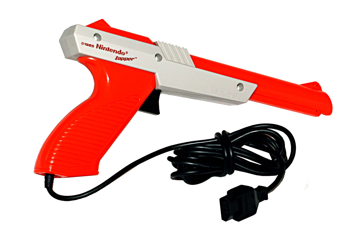 Nintendo NES Zapper Lightgun